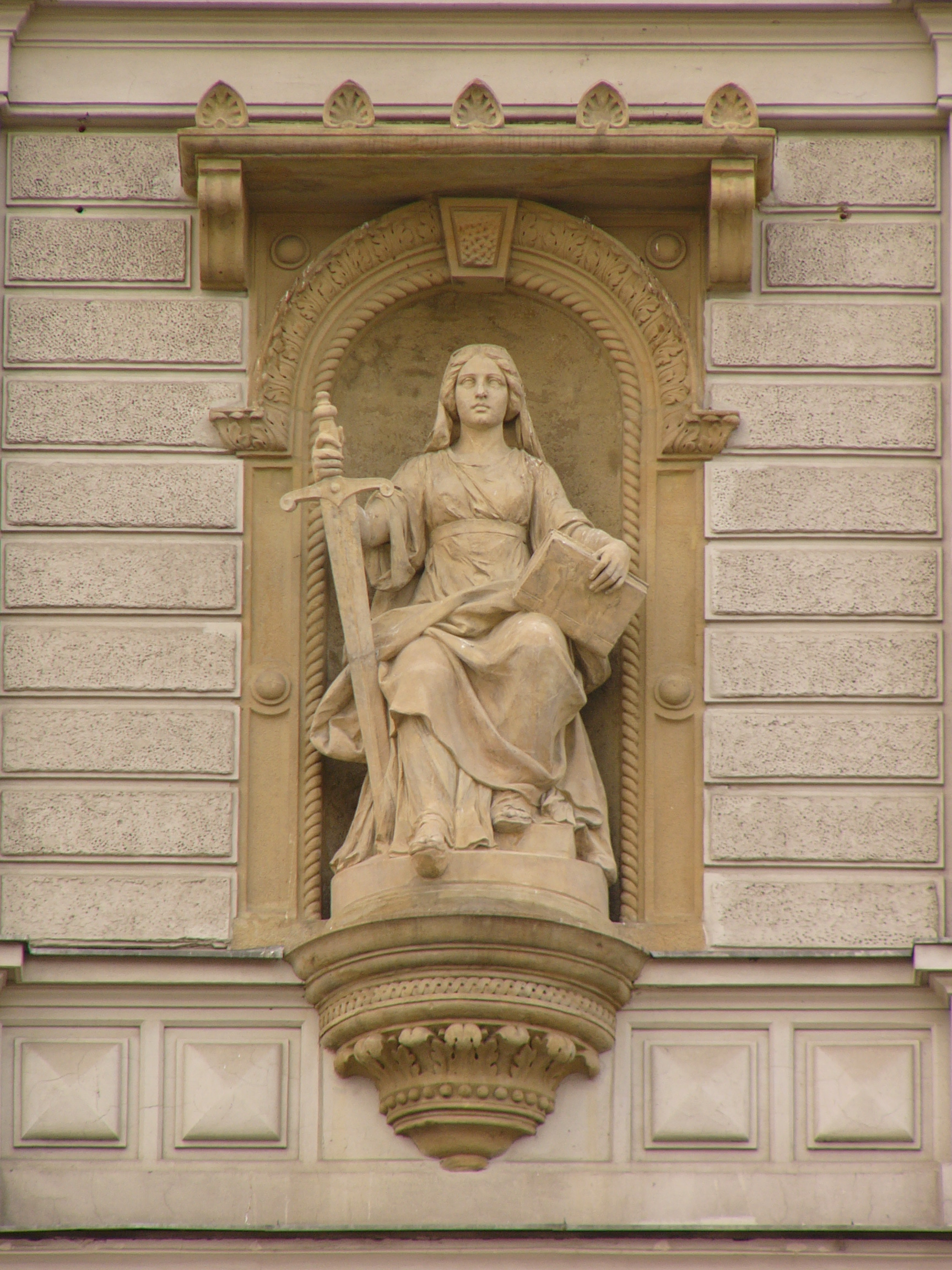 Lady Justice - allegory of Justice - statue at court building in at třída Svobody street Olomouc (Czech Republic). According to information at the statue was made by sculptor J. L. Urban. This image of Lady Justice lacks the typical blindfold and scales, replacing the latter with a book. The building in Olomouc is called the Palace of Justice, and inside there are District Court in Olomouc (Czech: Okresní soud v Olomouci), Olomouc department of Regional Court in Ostrava (Krajský soud v Ostravě - pobočka Olomouc) and a remand prison. The English names of the courts are approximate translation into English, because their official Internet pages do not have English version.